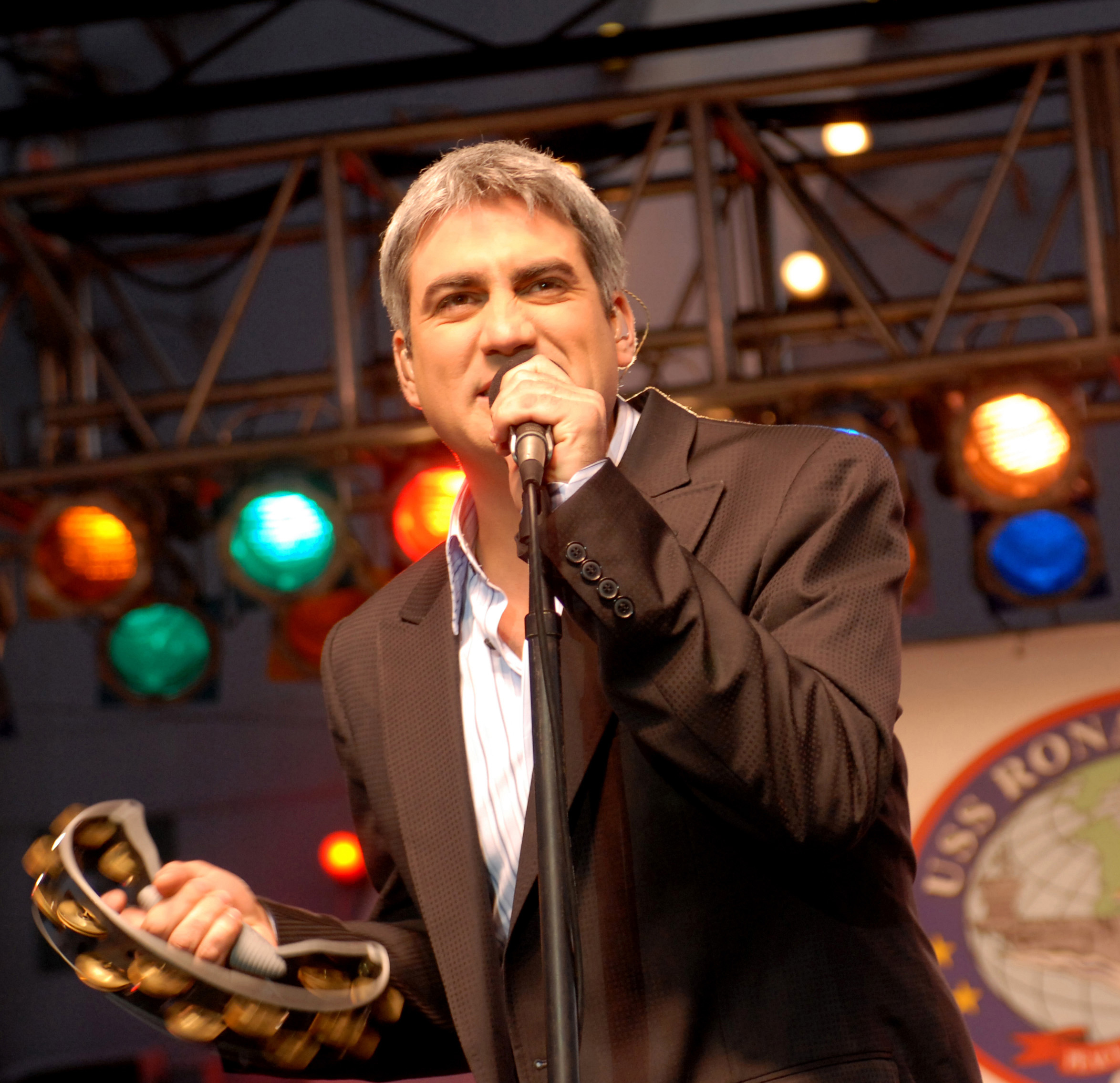 061219-N-2959L-102 Coronado, California - 2006 American Idol winner Taylor Hicks performs for the crowd during a holiday concert for service members and their families aboard the Nimitz-class aircraft carrier USS Ronald Reagan (CVN-76). The United Service Organizations (USO) sponsored the event that also included performances by comedians Josh Blue and John Heffron.